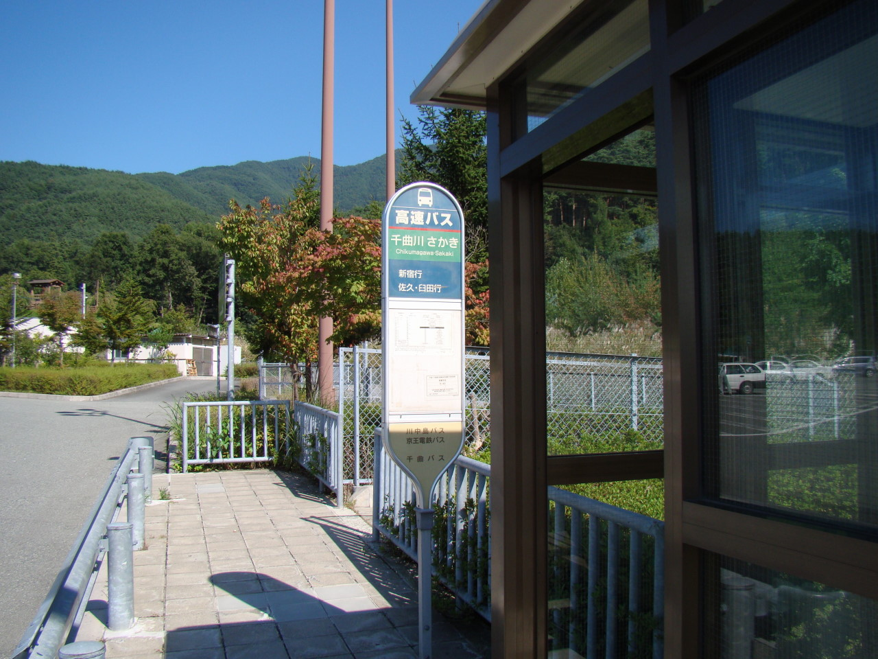 Chikumagawasakaki busstop Tokyo side Nagano Japan